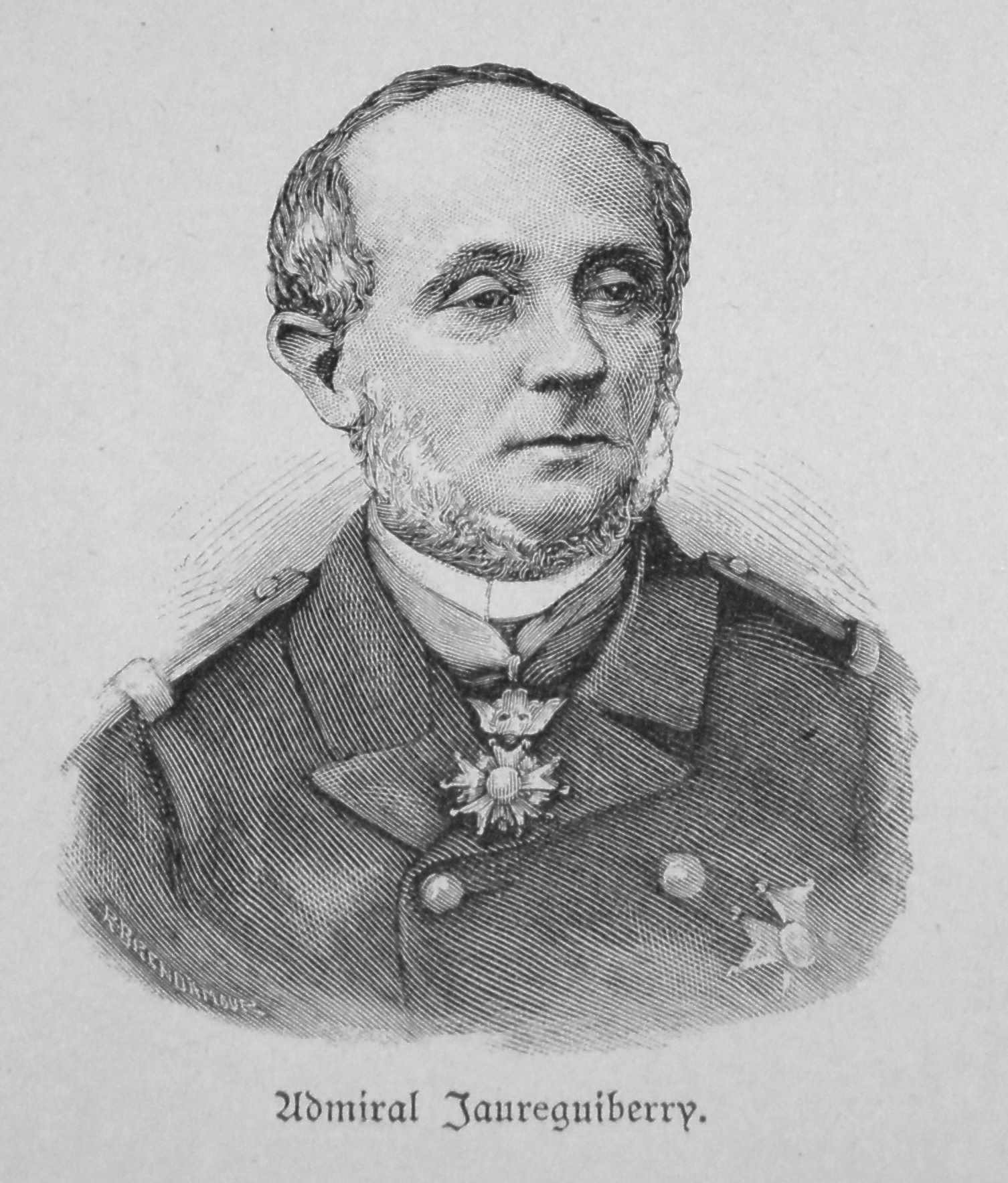 admiral Jaureguiberry